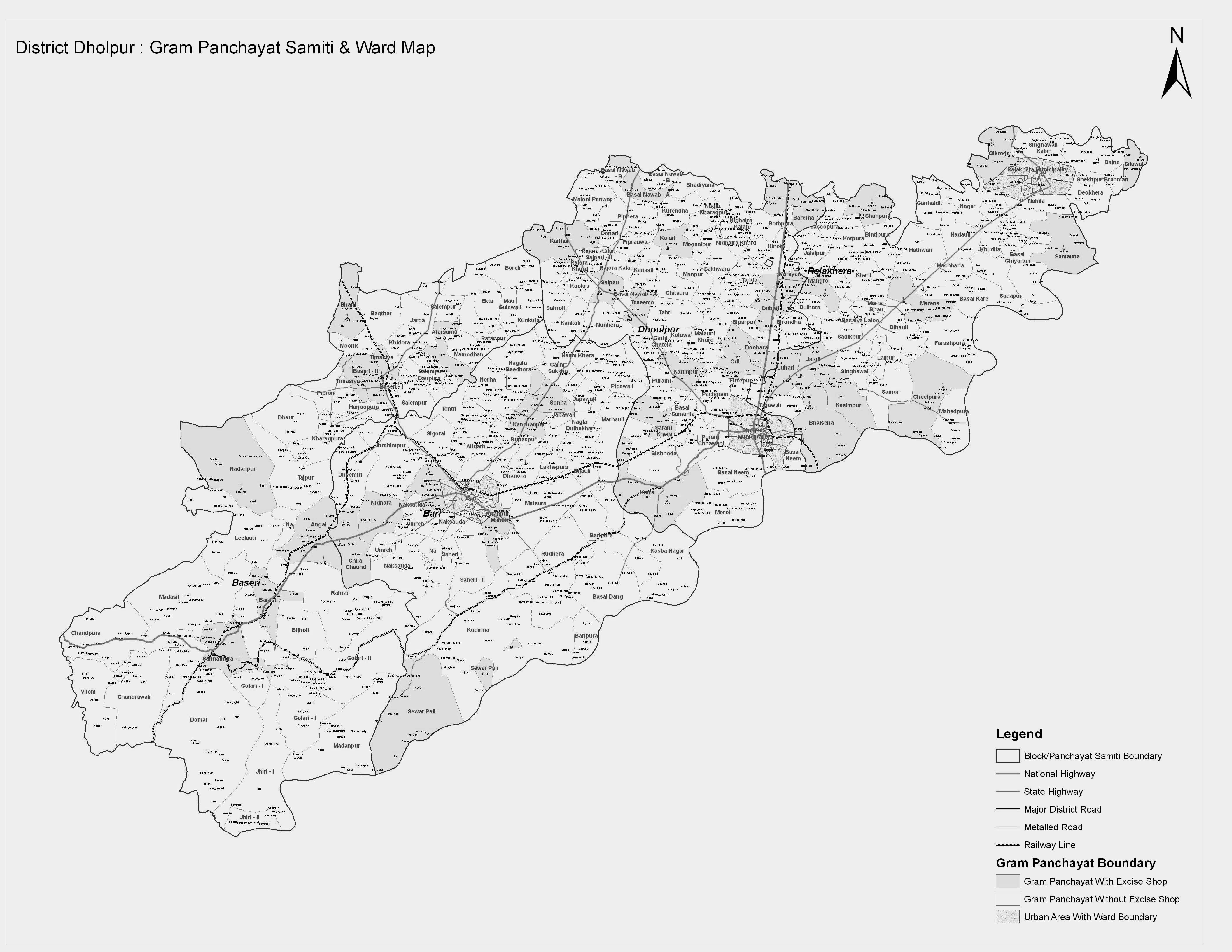 this photo covers gram panchayat of dholpur district.